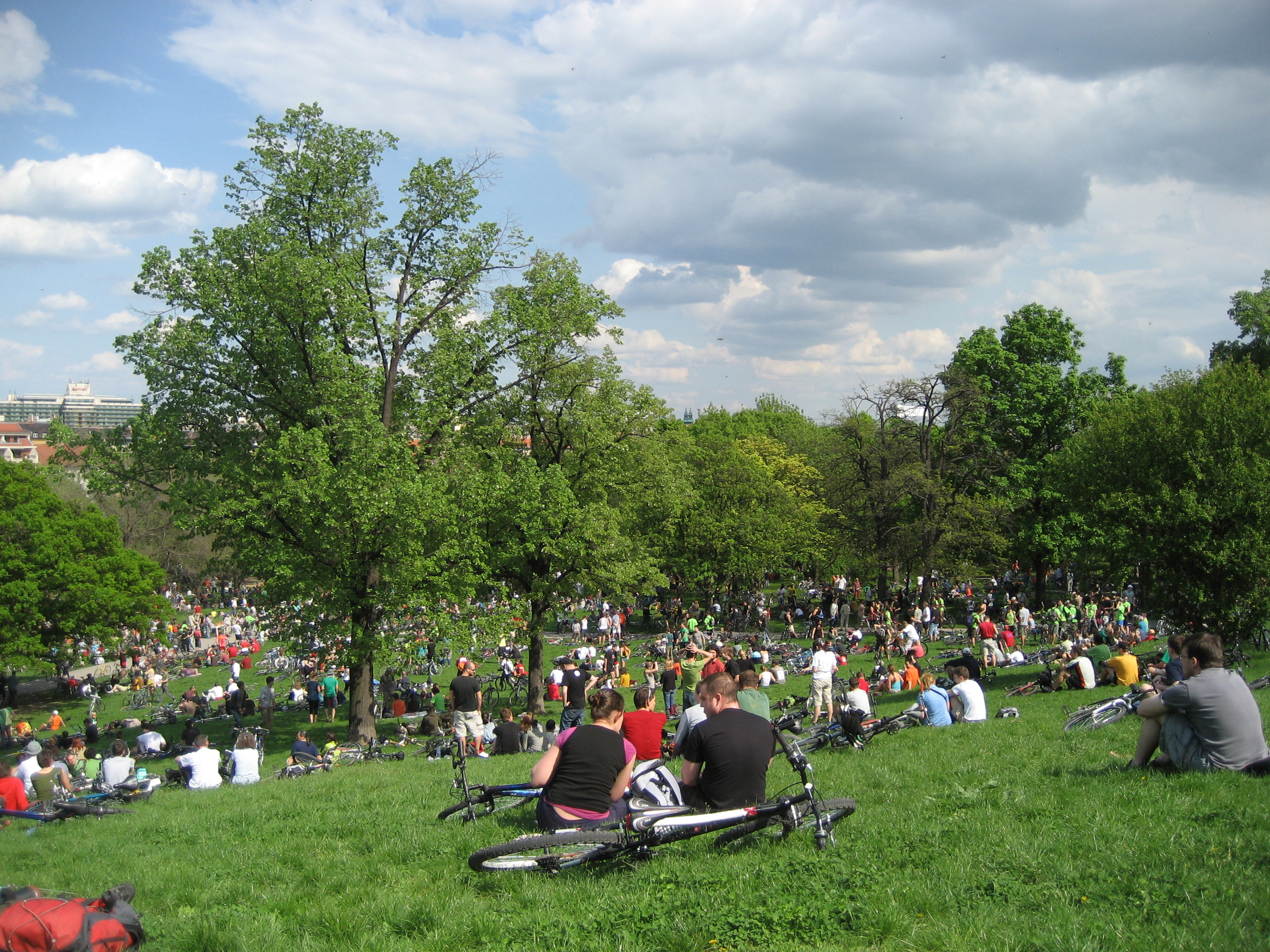 Critical Mass in Budapest, April 19, 2009; before starting, meeting at Taban